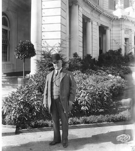 On verso of image: Governor James F. Smith of Philippines, 1906-1909 Subjects (LCSH): Alaska-Yukon-Pacific Exposition (1909 : Seattle, Wash.); Exhibitions--Washington (State)--Seattle